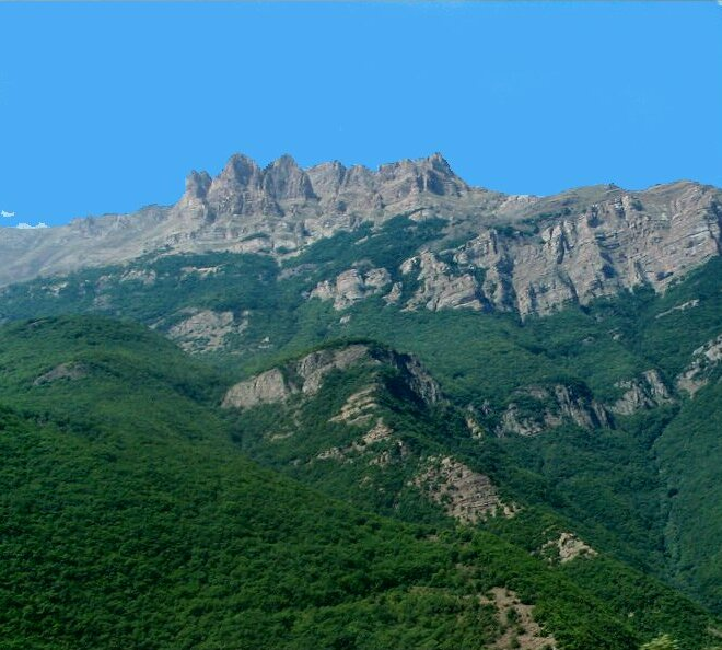 Alborz Mt. Mazandaran, Iran